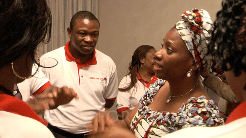 Dame Judith Amaechi chatting with Wish4 Africa Medical Mission volunteers during our courtesy visit to her office at the Government House in Port Harcourt.